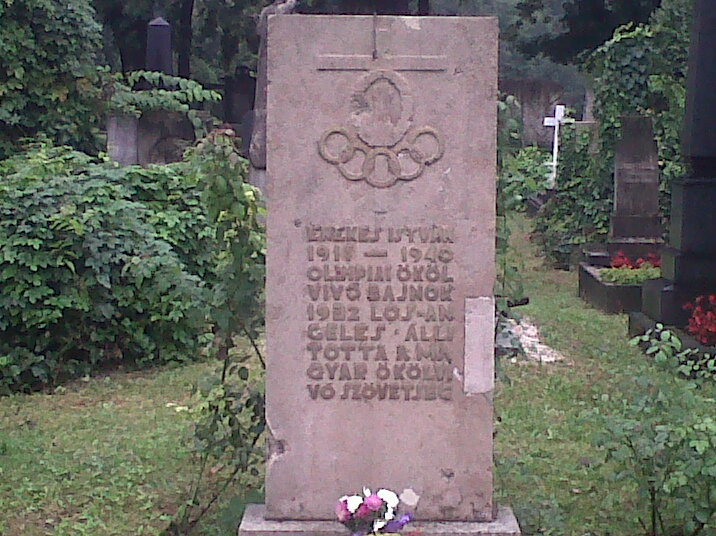 István Énekes gravesite in Budapest